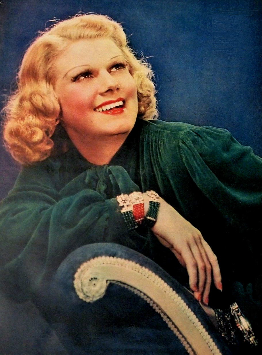 Photo of Jean Harlow from the front cover of the New York Sunday News magazine.